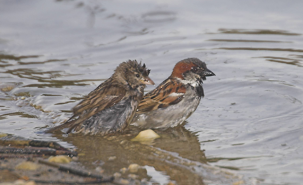 They were too cute.. and I might add they look happy. But what do I know? :-)